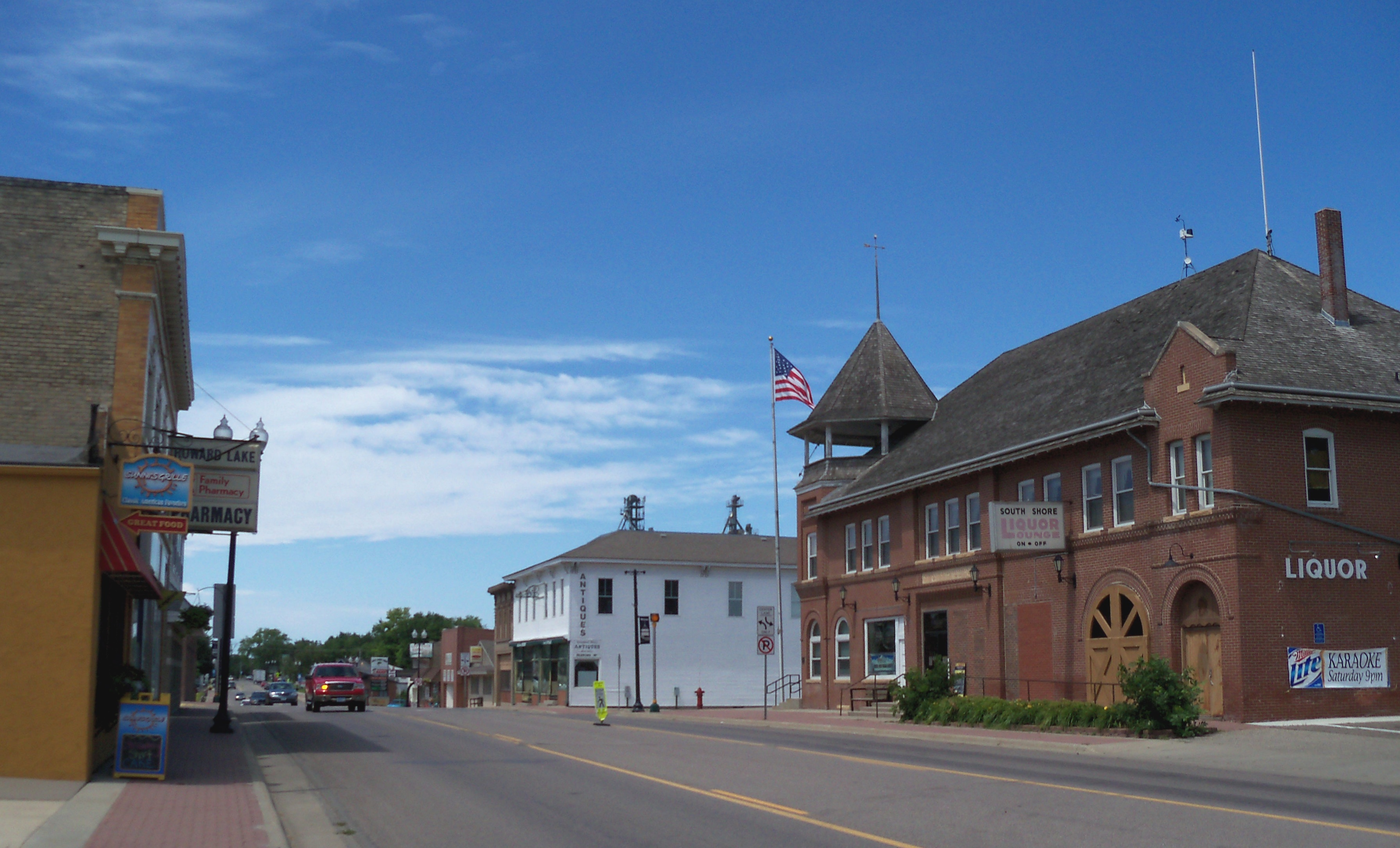 Street in Howard Lake, Minnesota, USA.